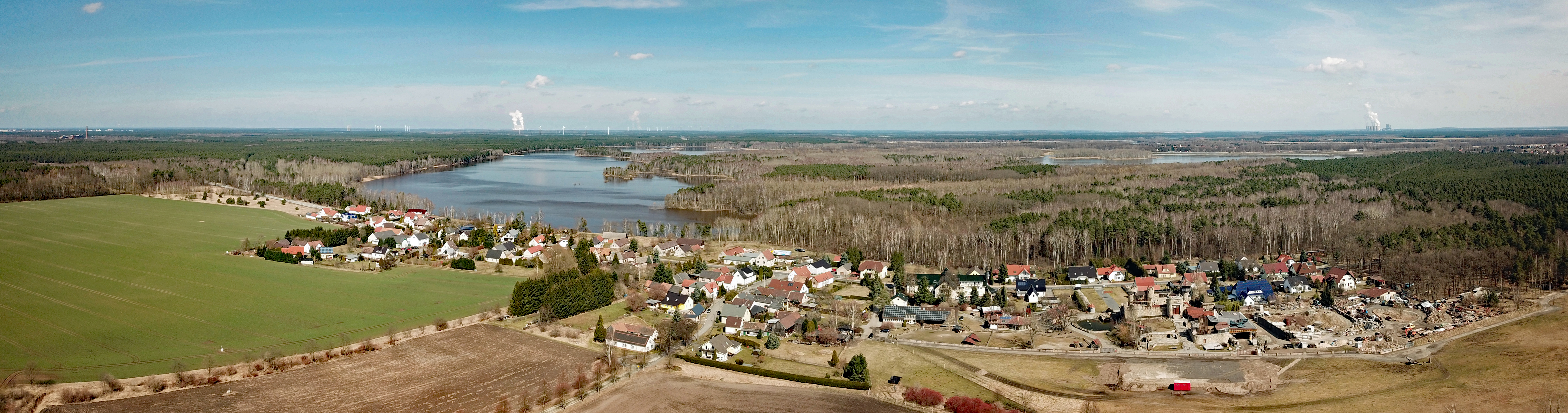 Mortka (Lohsa, Saxony, Germany) Hornjoserbsce: Powětrowy wobraz Mortkowa